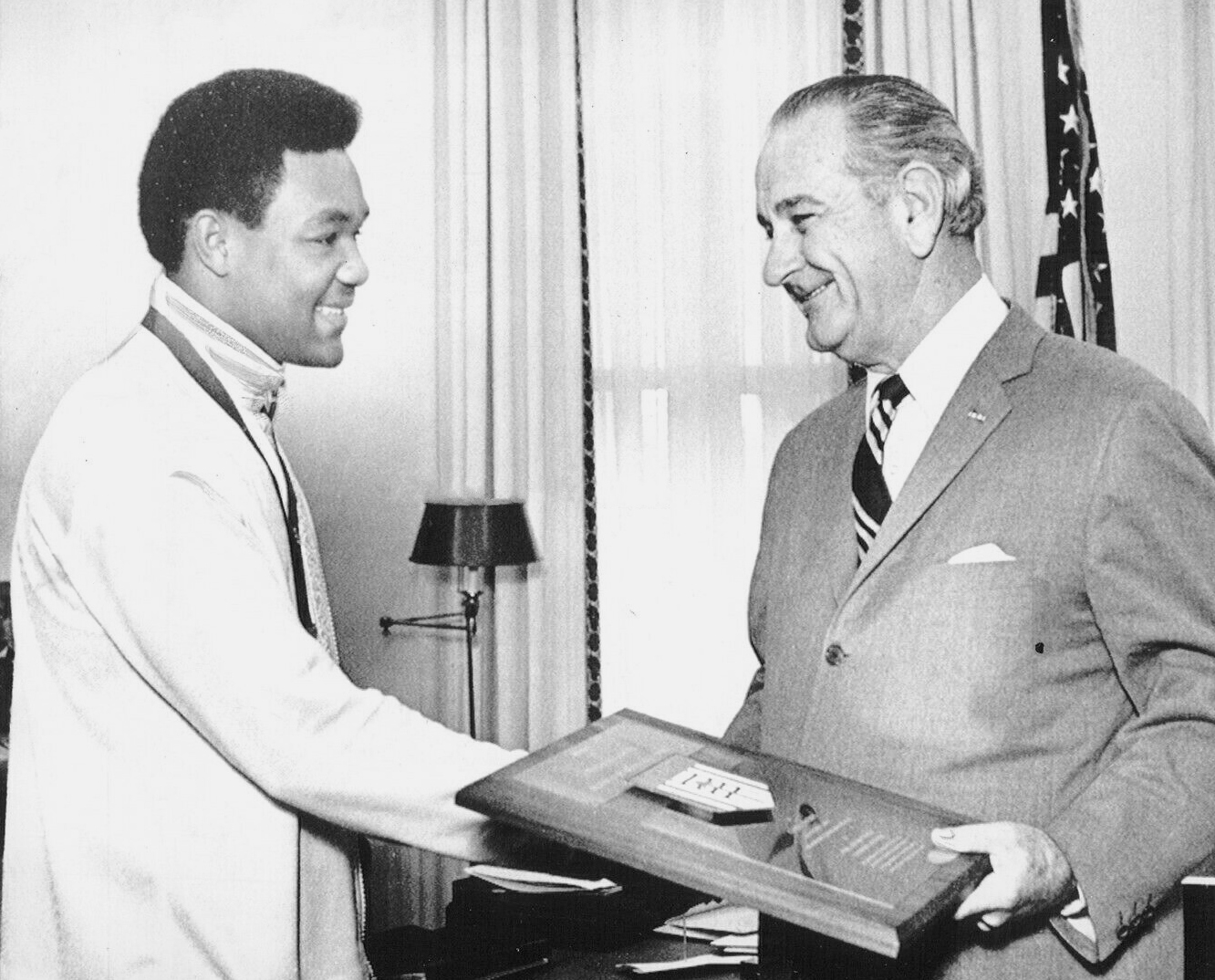 Wire Photo Politics George Foreman Lyndon B Johnson